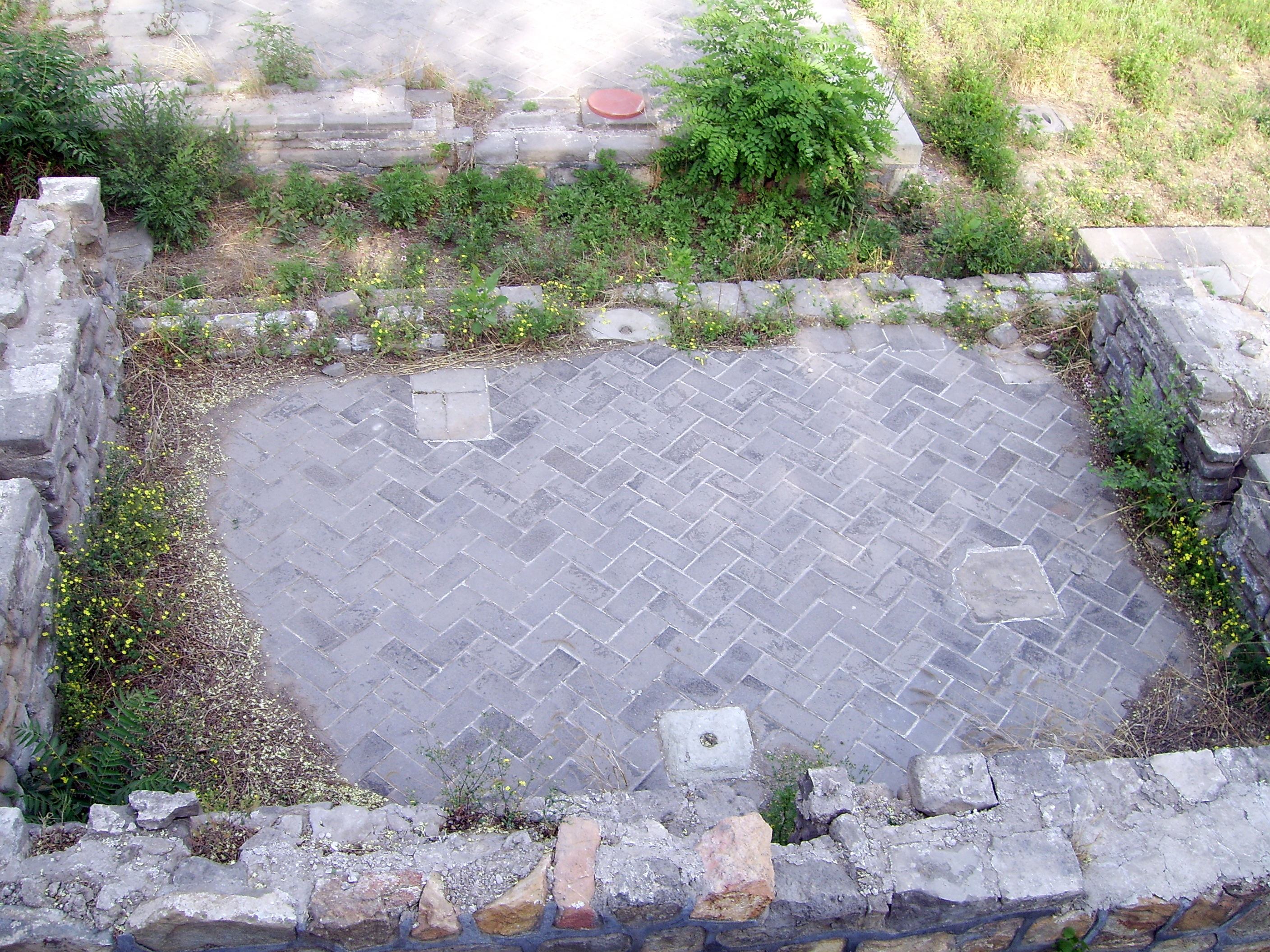 Ruins of Xiyang Lou (Western mansions) structures and gardens. On the grounds of the Yunamingyuan (Old Summer Palace) — in Beijing.